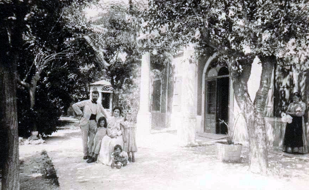 The Kircher family from their home in Trieste, circa 1901